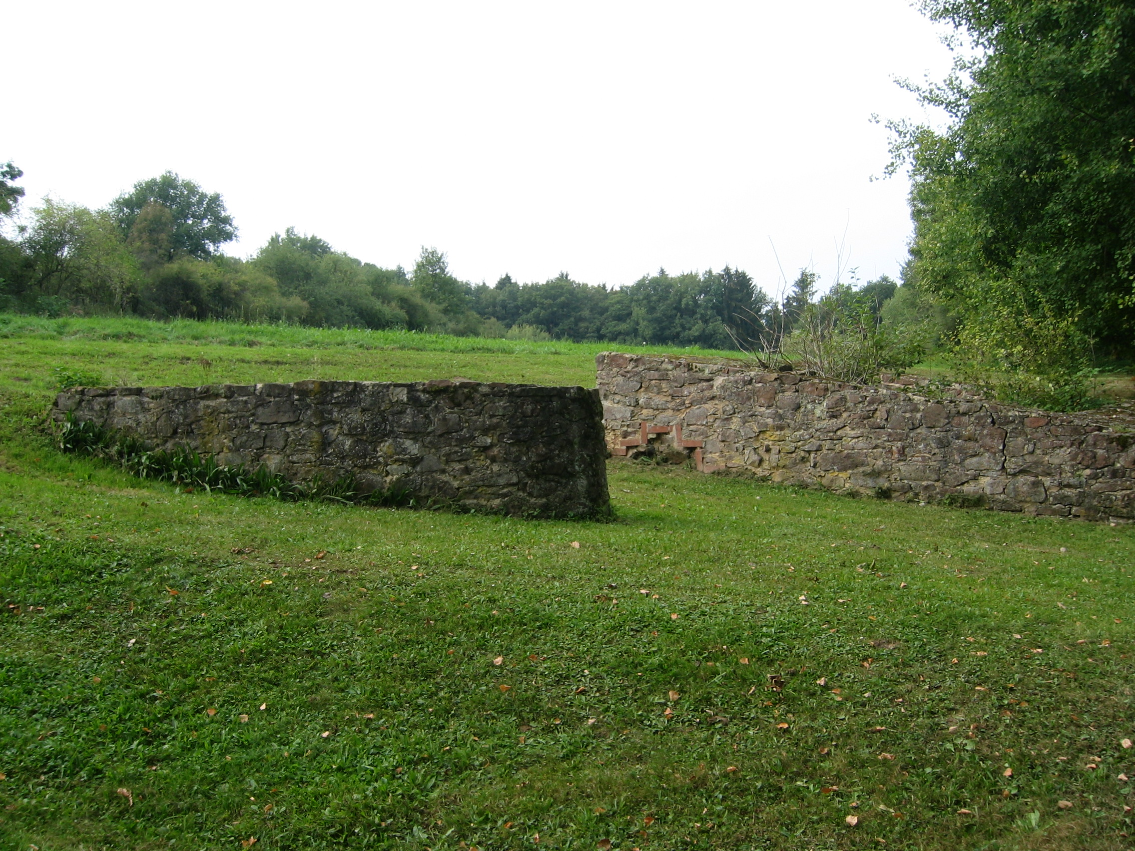 The remains of the southeastern gate of the Büraburg at Fritzlar, Hesse, Germany.